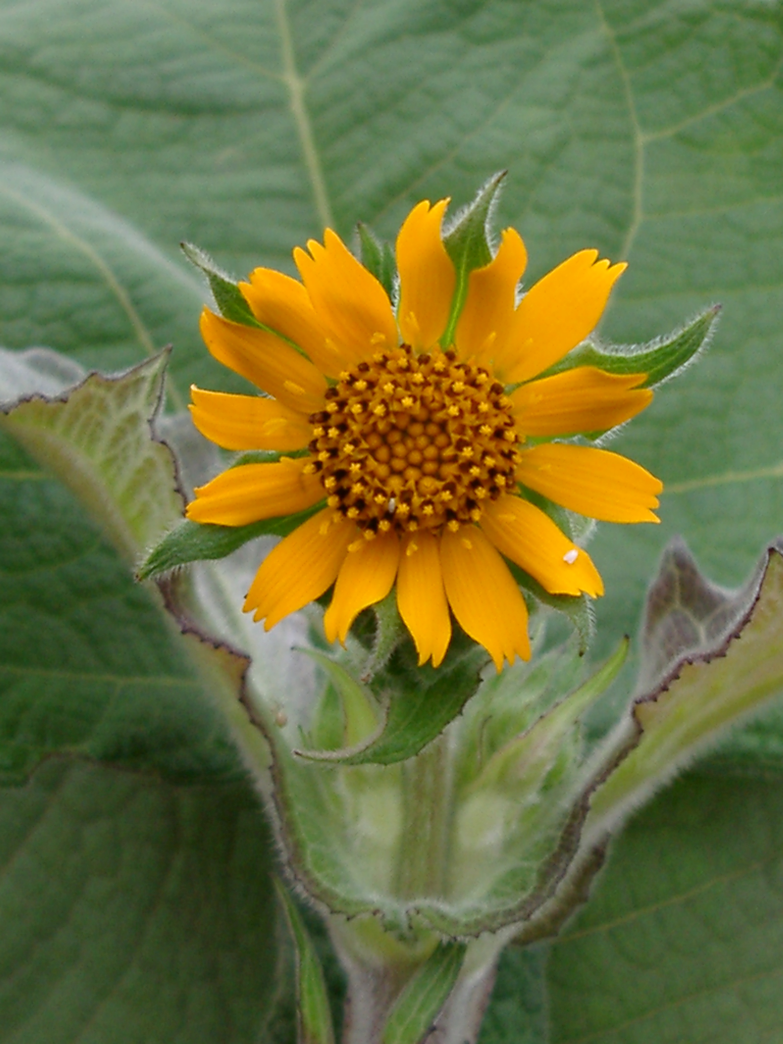 Yacon flower. Locality: Lima, Peru.